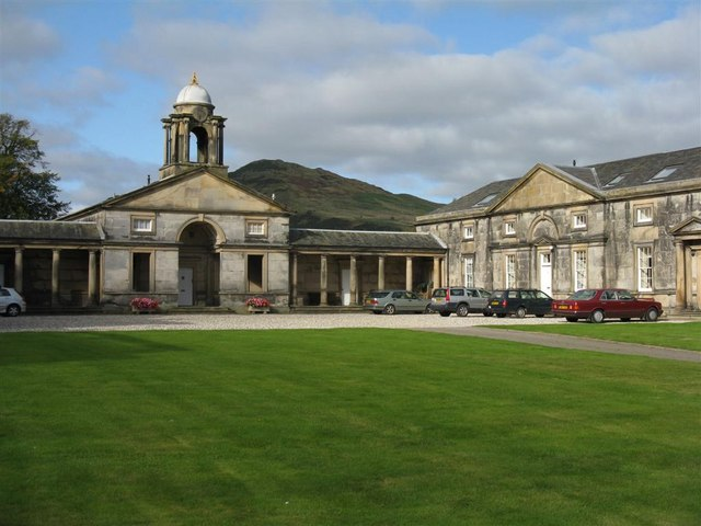 Duddingston House 'Annexe'. Buildings to the north of the main house 1507785, which were apparently for the staff, rather than letting them live in the cellars or attic rooms. Now they appear to be lived in by 'ordinary' people. Arthurs Seat in the background, and Duddingston Golf Course all around.